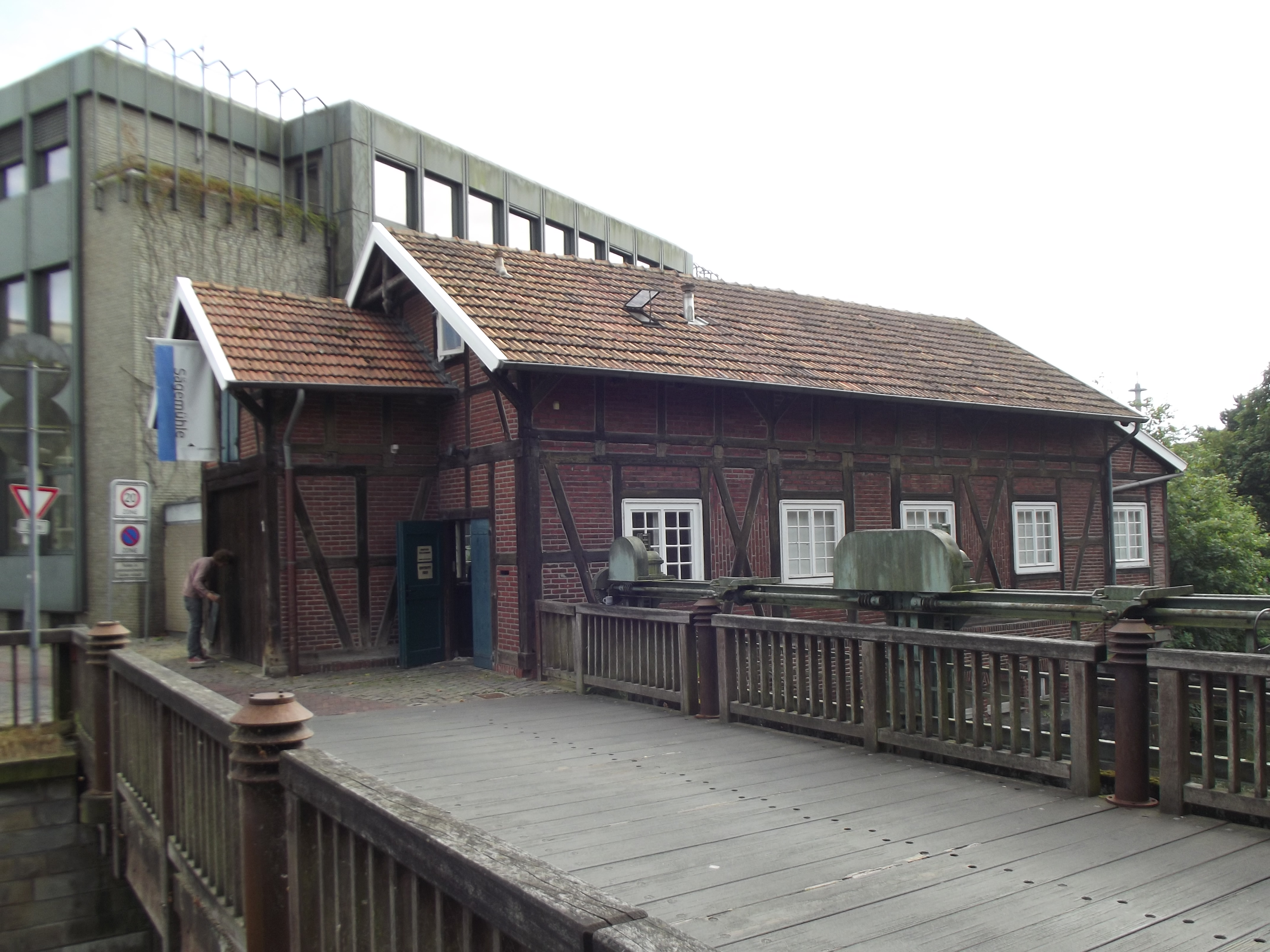 Original name "Alte Sägemühle". When I was there a Dutch artist prepared his photo exhibition. He can be seen picking up a piece of decoration